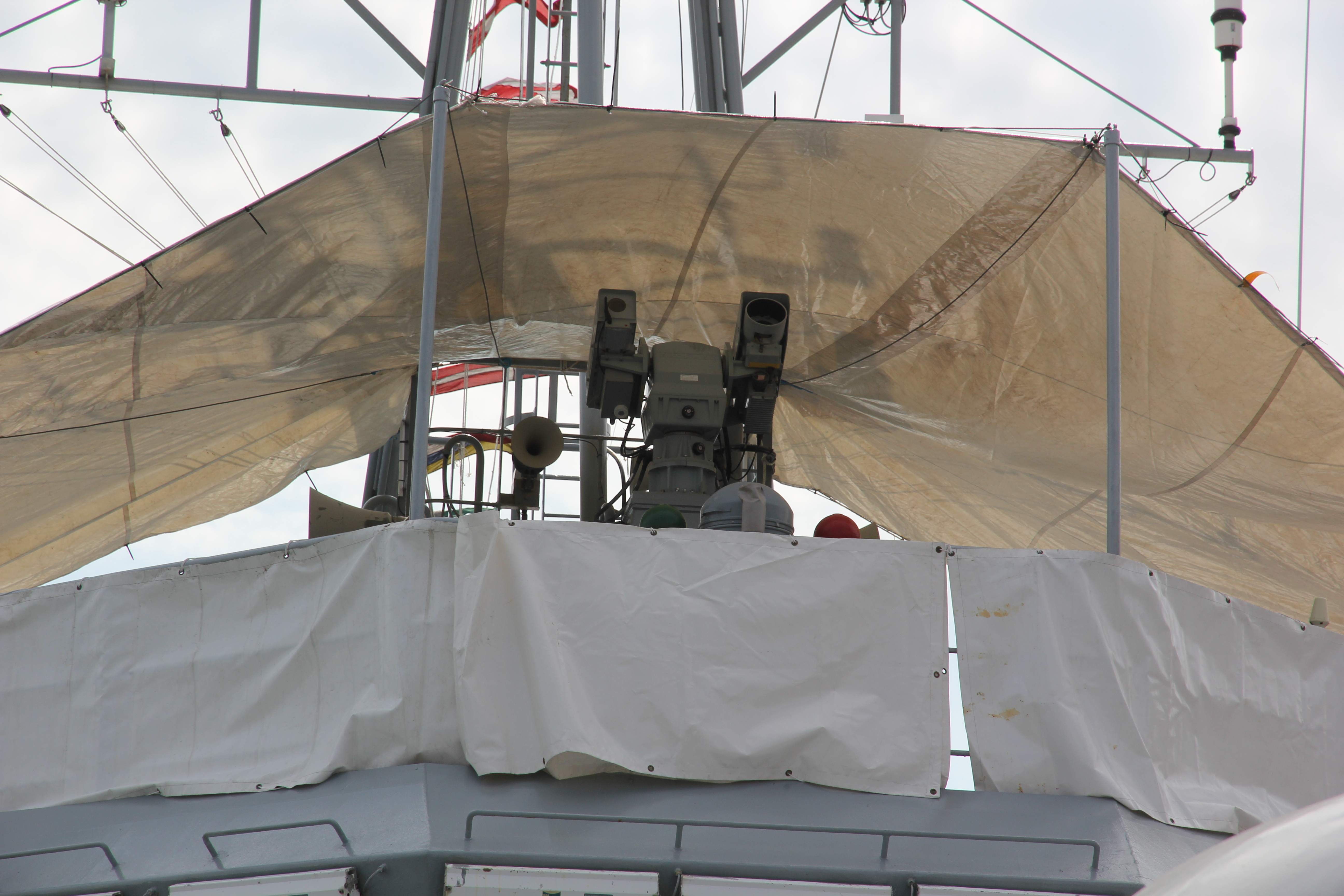 Fire control system of Irish offshore patrol ship LÉ Róisín (P51) photographed in Helsinki.